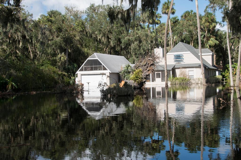 Deltona, Florida, October 11, 2017 --Flooded homes line the streets in Deltona, FL in Volusia county. Patsy Lynch/FEMA